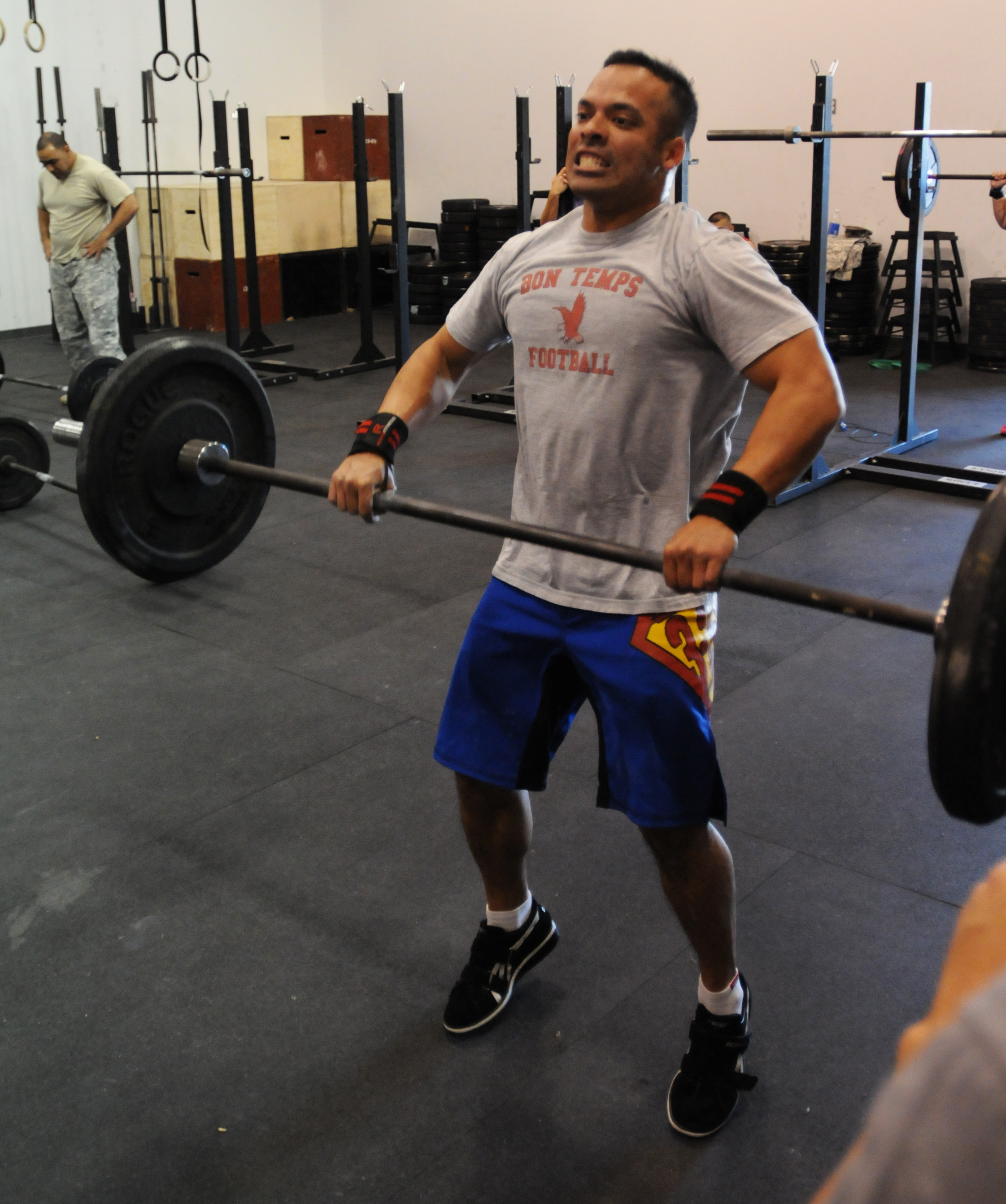 U.S. Army Maj. Roger Miranda with the 1st Cavalry Division lifts a barbell while doing thrusters during the CrossFit Open competition at Fort Hood, Texas, April 5, 2013. The exercise, repeated several times, works muscles in the upper and lower body.